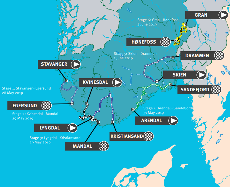 Tour Map